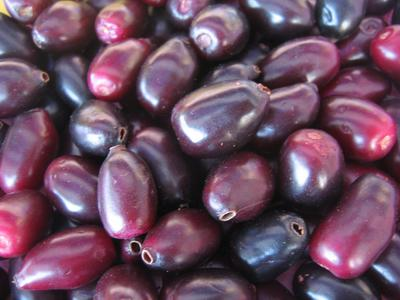 Jambuls, or the jumblum (Java plum) fruit from Goa, India. Photo by Frederick "FN" Noronha.